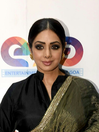 Sridev at IFFI 2017.